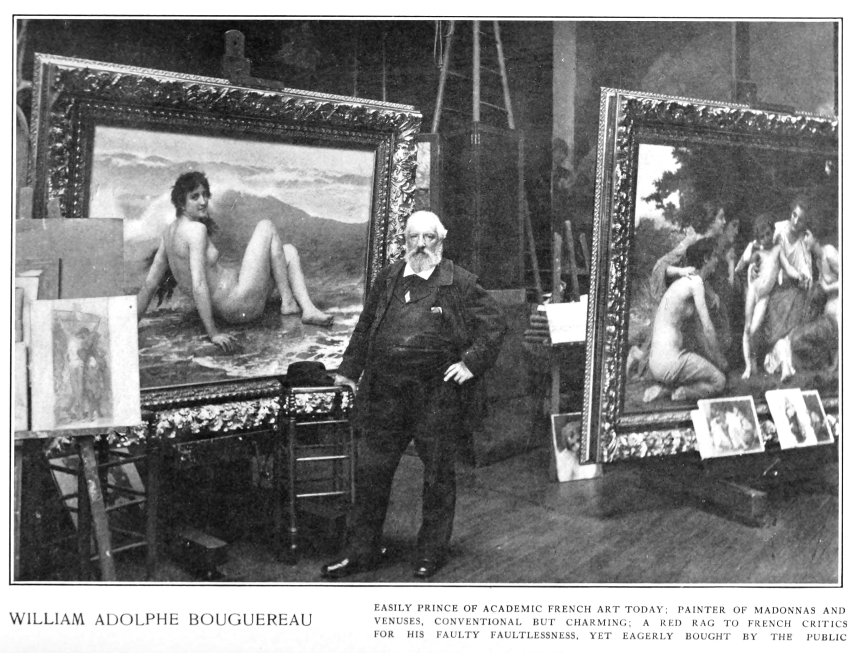 William Adolphe Bouguereau in his studio, 1903 or 1904. Beside him is his painting The Wave.